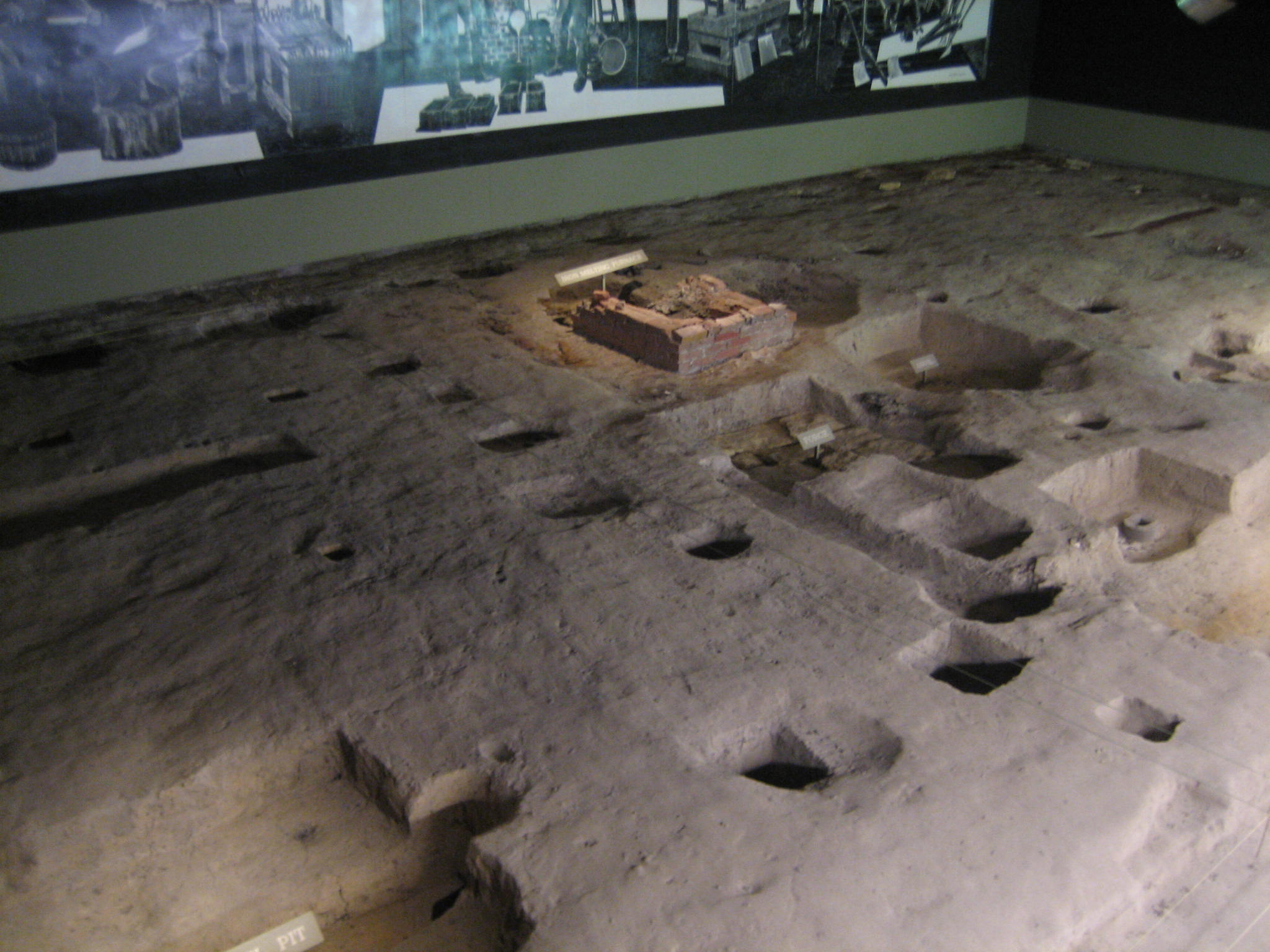 The site of the 1962 archaeological dig which unearthed the remains of the original John Deere blacksmith shop as well as the remains of a later 19th century home built on the site. Note the brick iron smelting furnace in the middle. The dig unearthed numerous artifacts. John Deere Historic Site (John Deere House & Shop) - Grand Detour, Illinois, United States. U.S. National Register of Historic Places, U.S. National Historic Landmark.